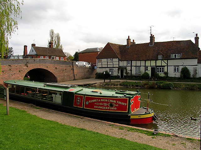 Hungerford: Kennet and Avon Canal. The area where boat trips can be taken and the bridge crosses the canal. This section is situated in the north eastern section of the grid square.